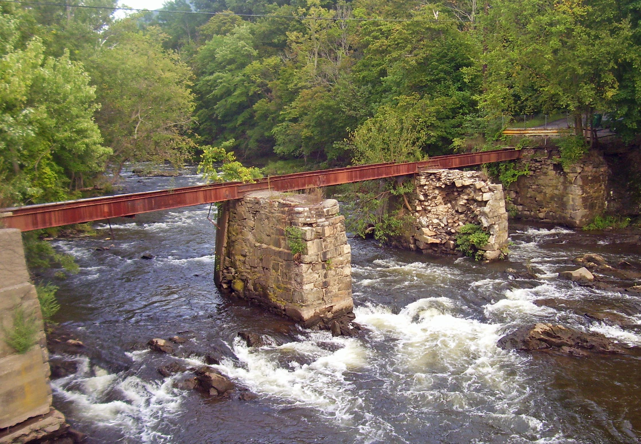 Remains of Tioronda Bridge from west side of Fishkill Creek, Beacon, NY, USA